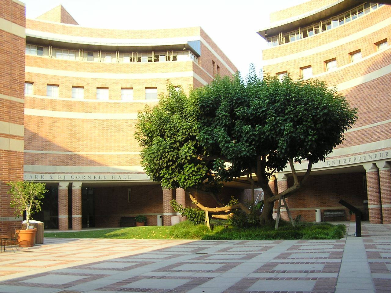 Anderson School of Management